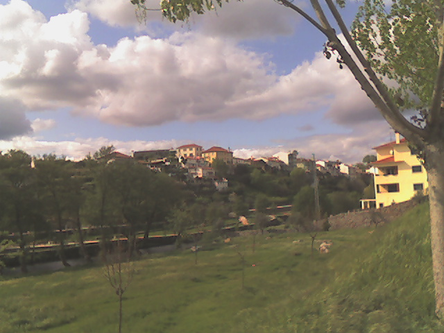 View of Sertã